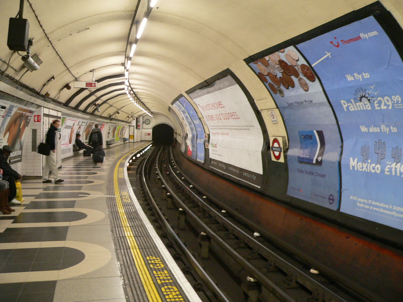 The northbound Bakerloo Line platform at Waterloo station.